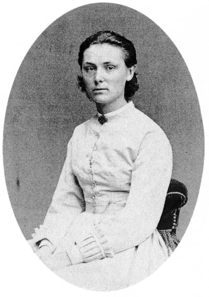 Swedish teacher and headmistress (1842-1932)